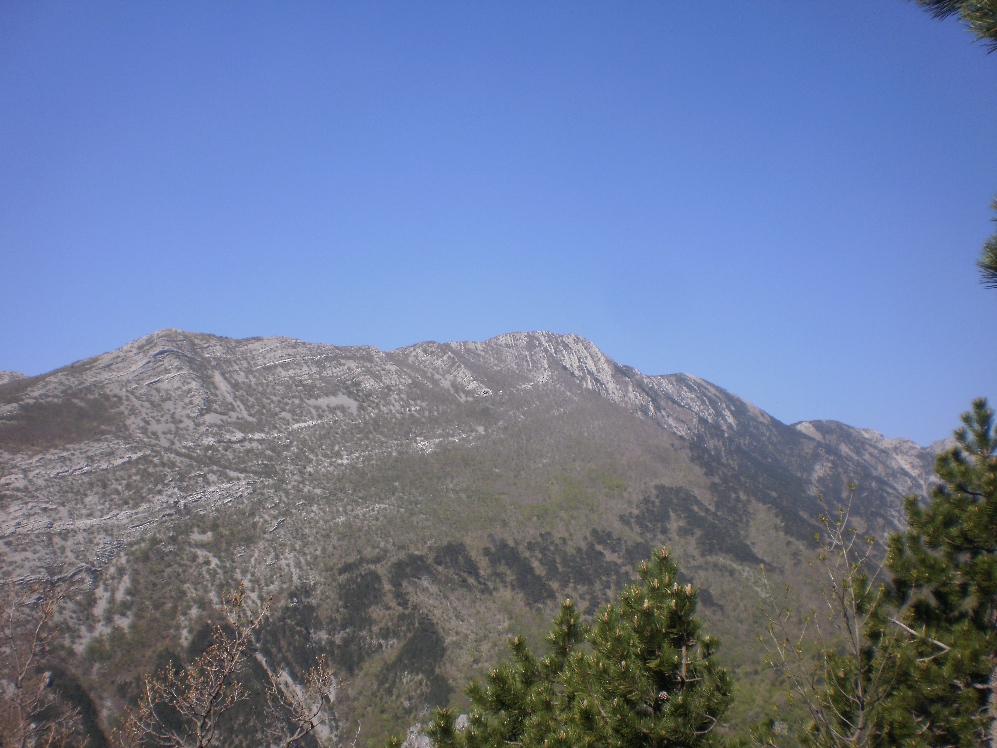 Peak in Paklenica OLYMPUS DIGITAL CAMERA